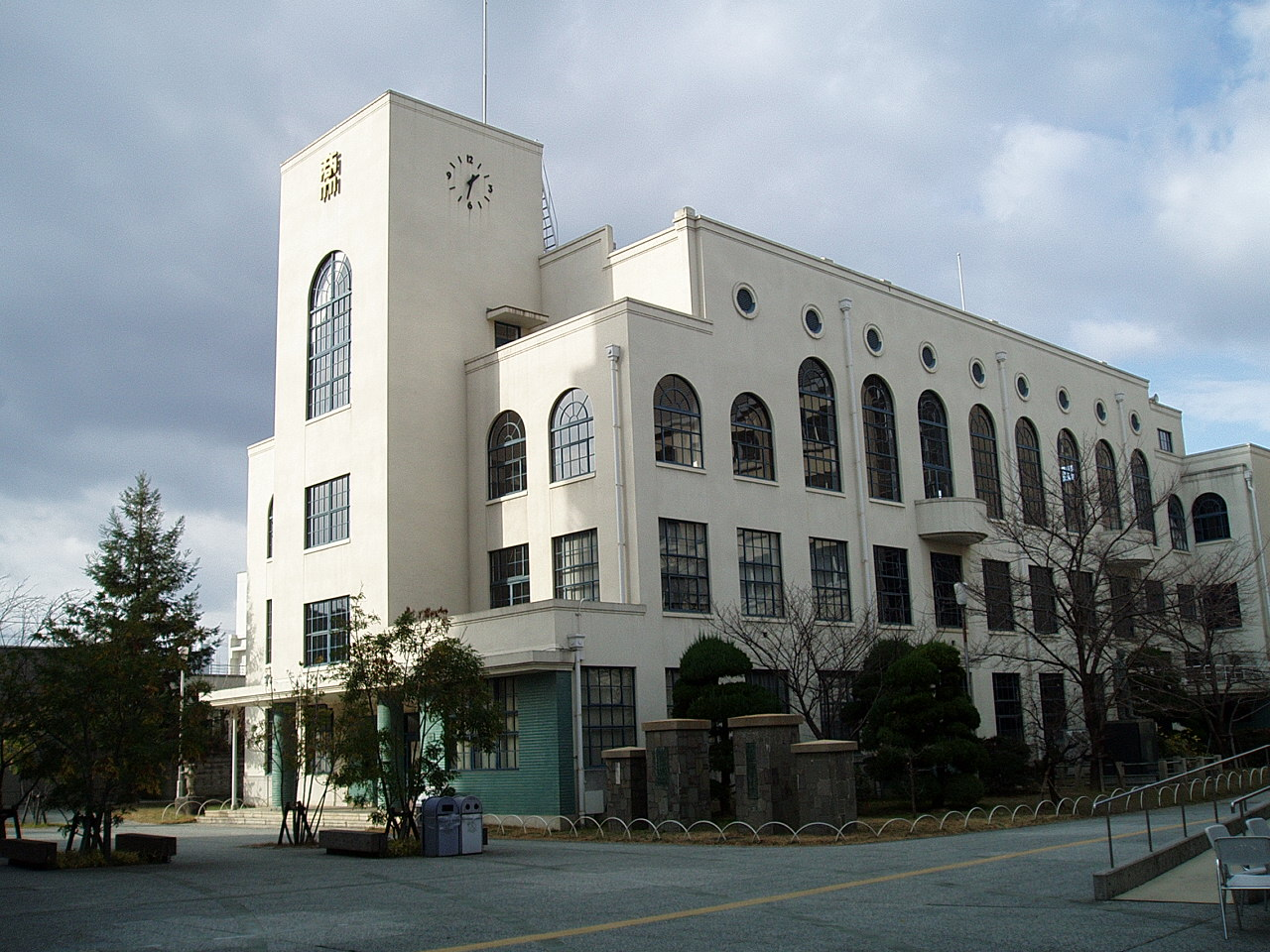 Tanioka Memorial Hall, Osaka University of Commerce. Built in 1935 as the main building of Osaka Joto School of Commerce.